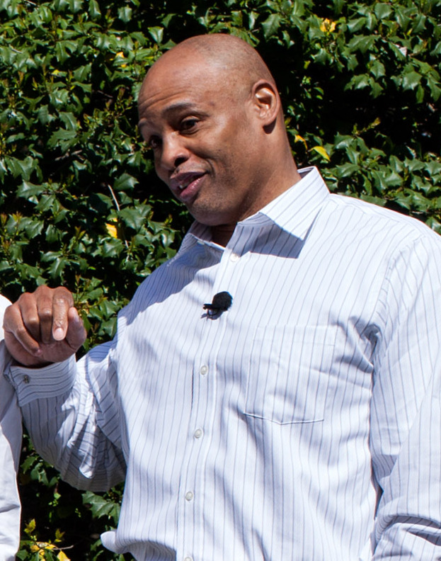 President Barack Obama laughs with Clark Kellogg as they walk through Children's Garden to the White House basketball before an interview for the CBS "Final Four Show", March 29, 2012. (Official White House Photo by Pete Souza)